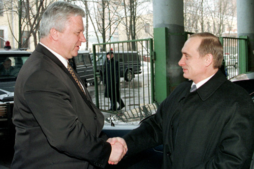 MOSCOW. Before a council meeting of the Federation of Independent Trade Unions of Russia with FITU Chairman Mikhail Shmakov.